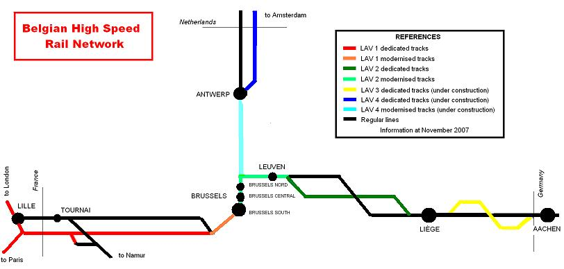 Belgian high speed railway network